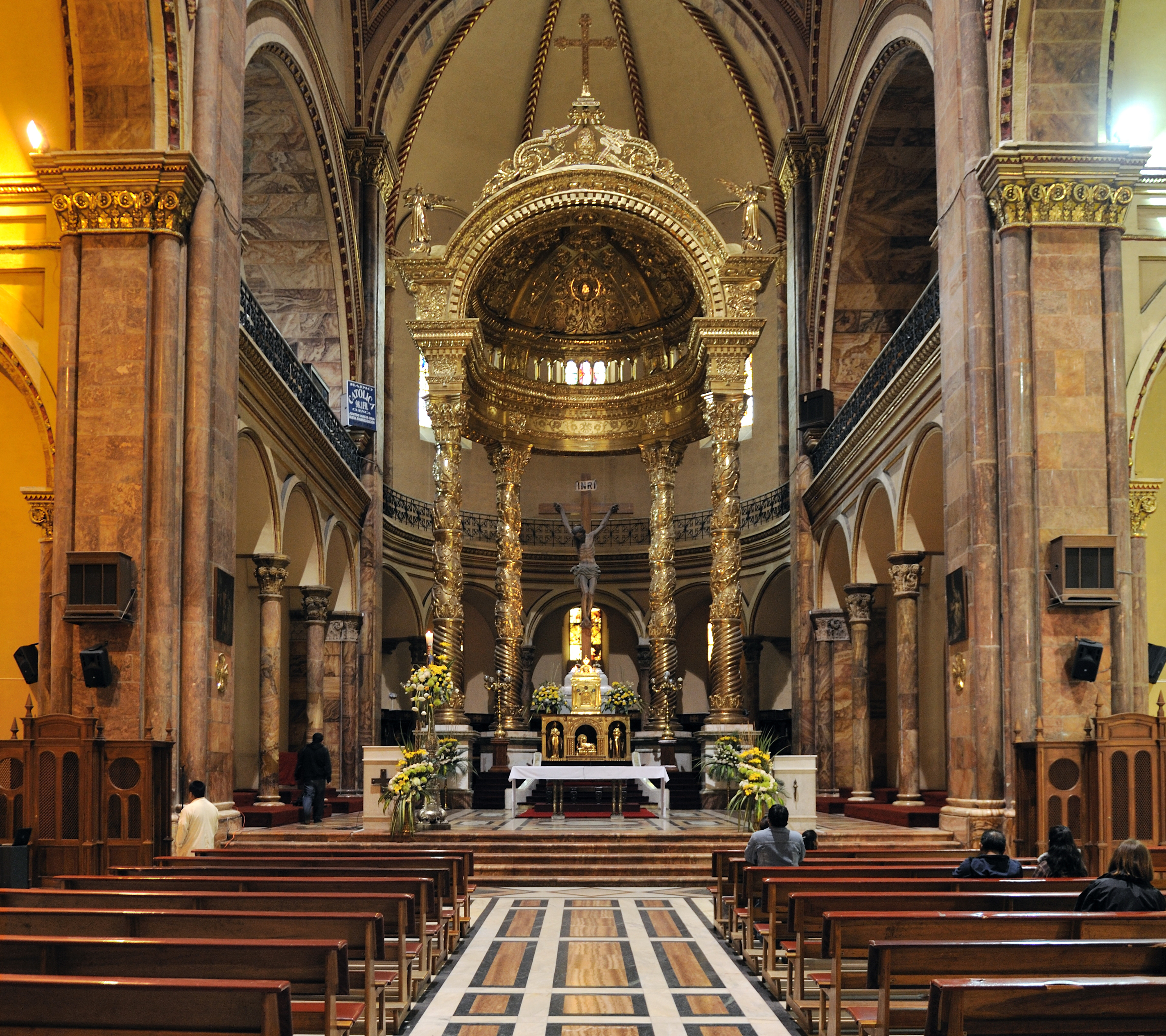 Cuenca, Ecuador: Main altar of Catedral de la Inmaculada Concepcion (Immaculate Conception), commonly designated as Catedral Nueva (New Cathedral) by the inhabitants of the city.